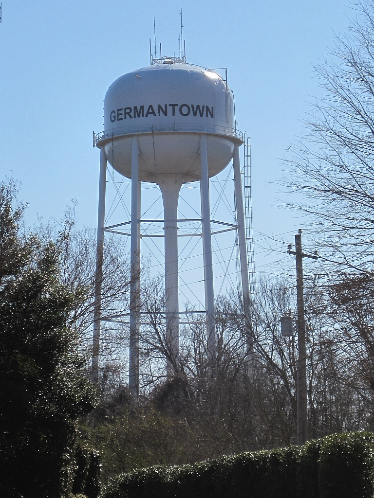 Germantown, Tennessee Watertower